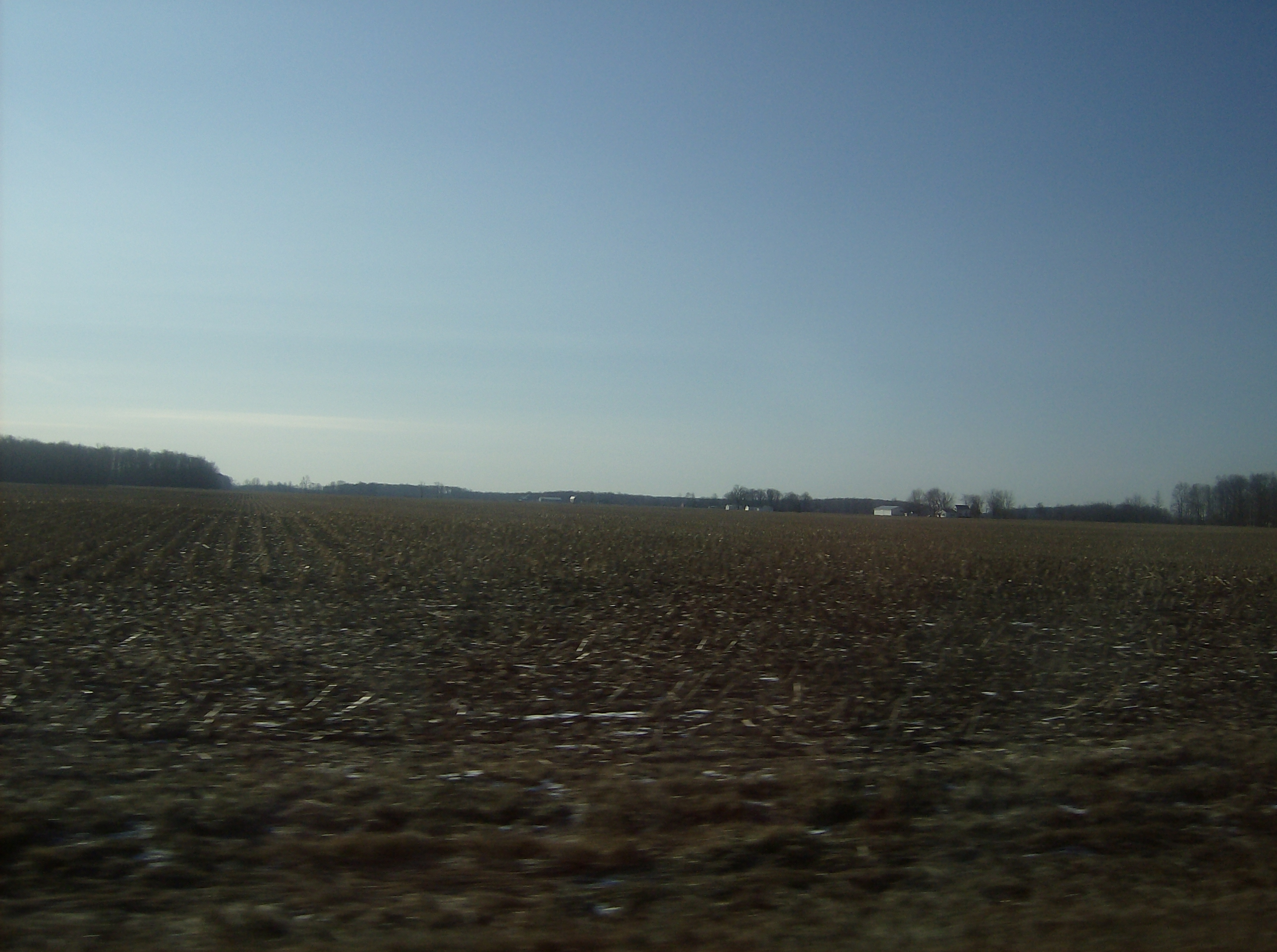 Farmland in far western Harrison Township, Van Wert County, Ohio, United States, just after crossing the state line. Picture taken southward from U.S. Route 224.